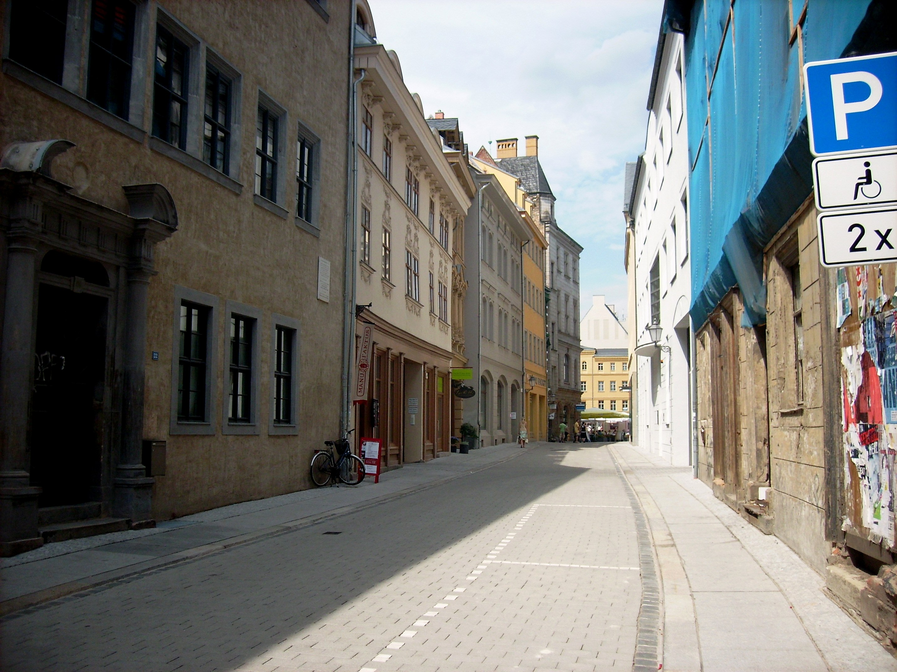 Grosse Märkerstrasse in the historic centre of Halle (Saale)